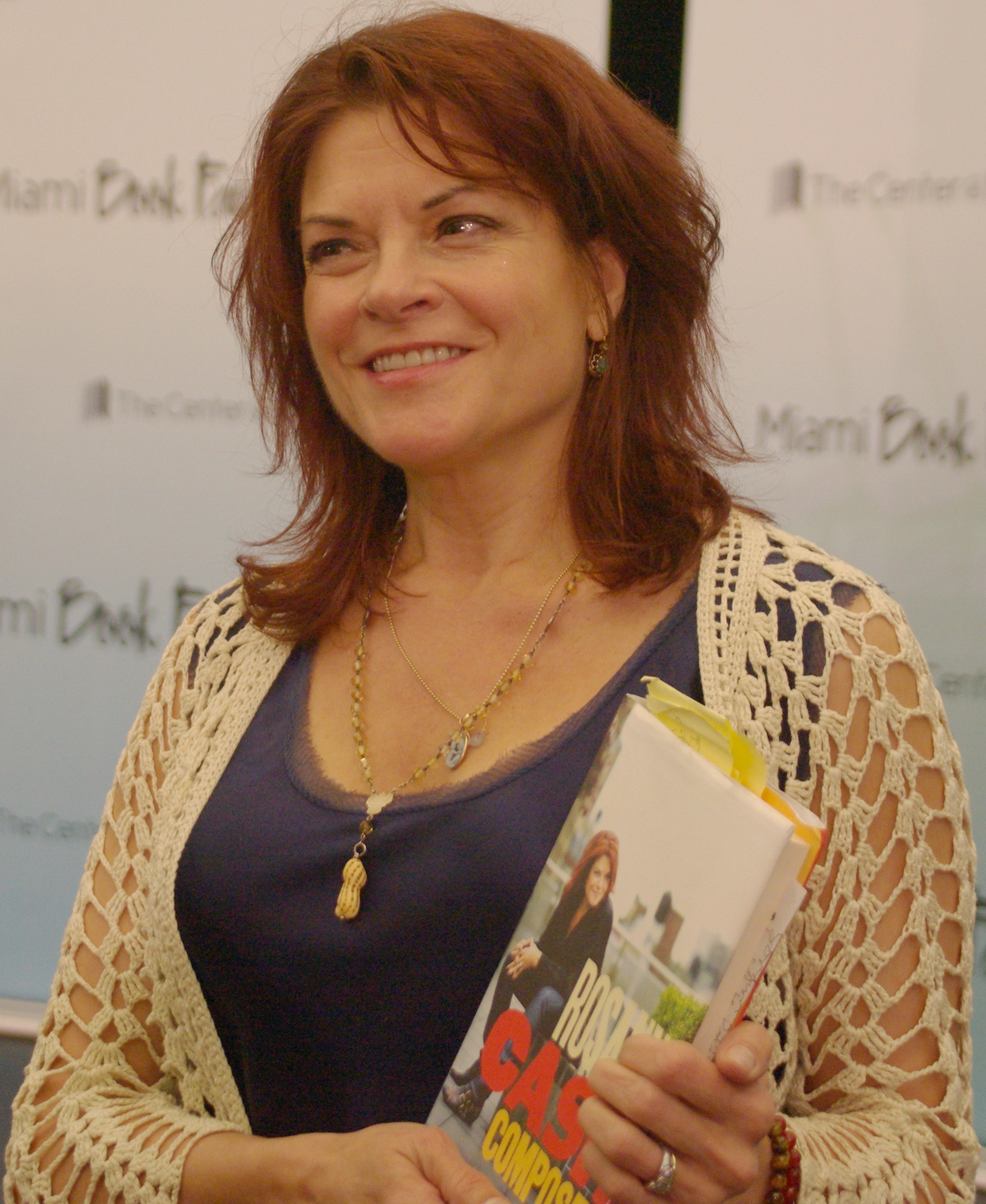 American singer-songwriter Rossane Cash during the presentation of her book Composed: a memoir at the Miami Book Fair International 2011